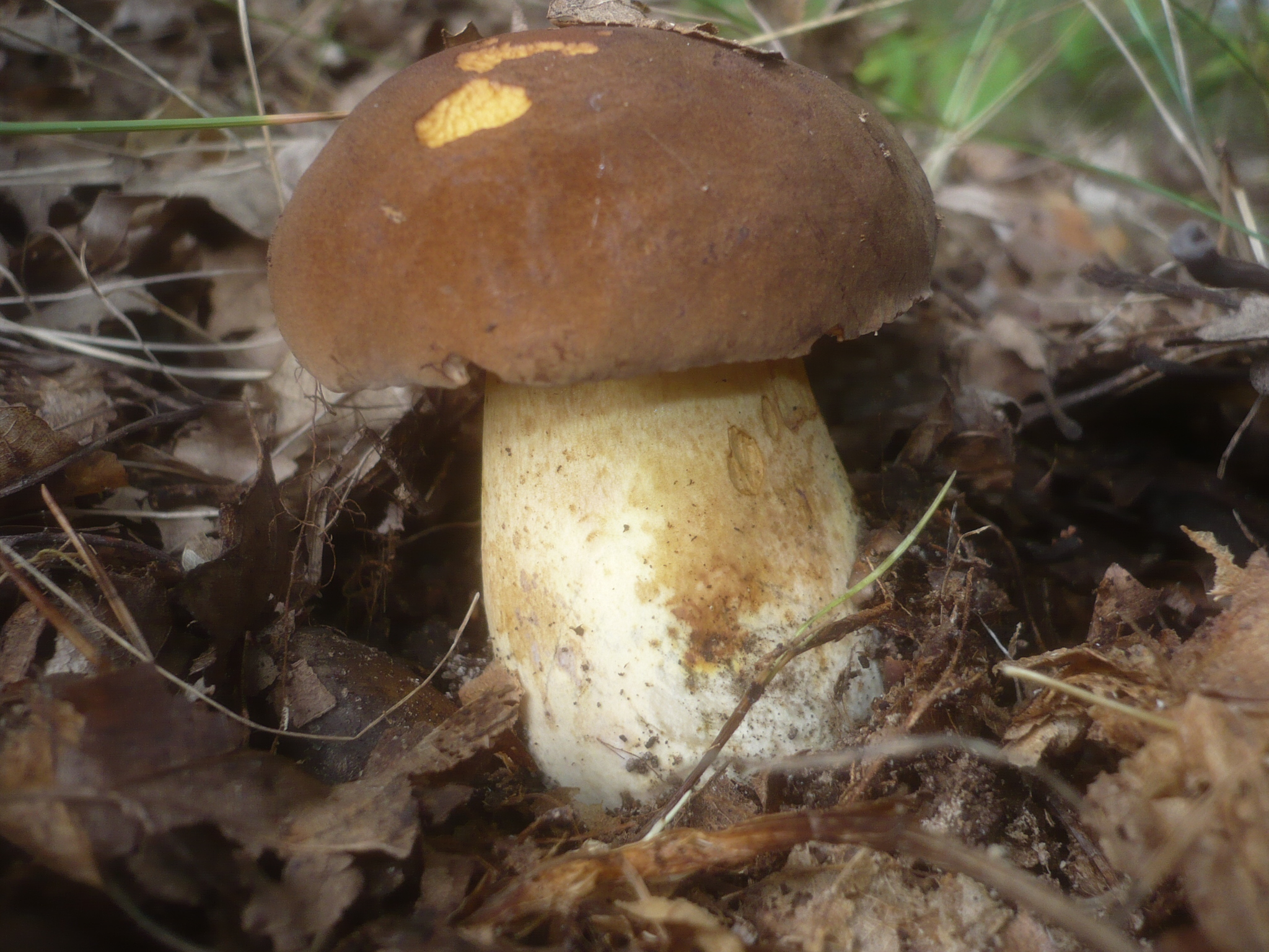 Boletus fragrans Vittad. Image location: Gornja loza, Großwarasdorf, Bezirk Oberpullendorf, Burgenland, Austria Recognized by sight For more information about this, see the observation page at Mushroom Observer.